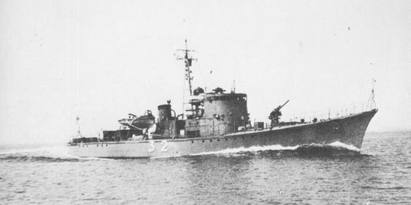 Japanese Submarine Chaser No.32(No.28-class) in trial at Tokyo Bay, completed Aug. 19, 1936.